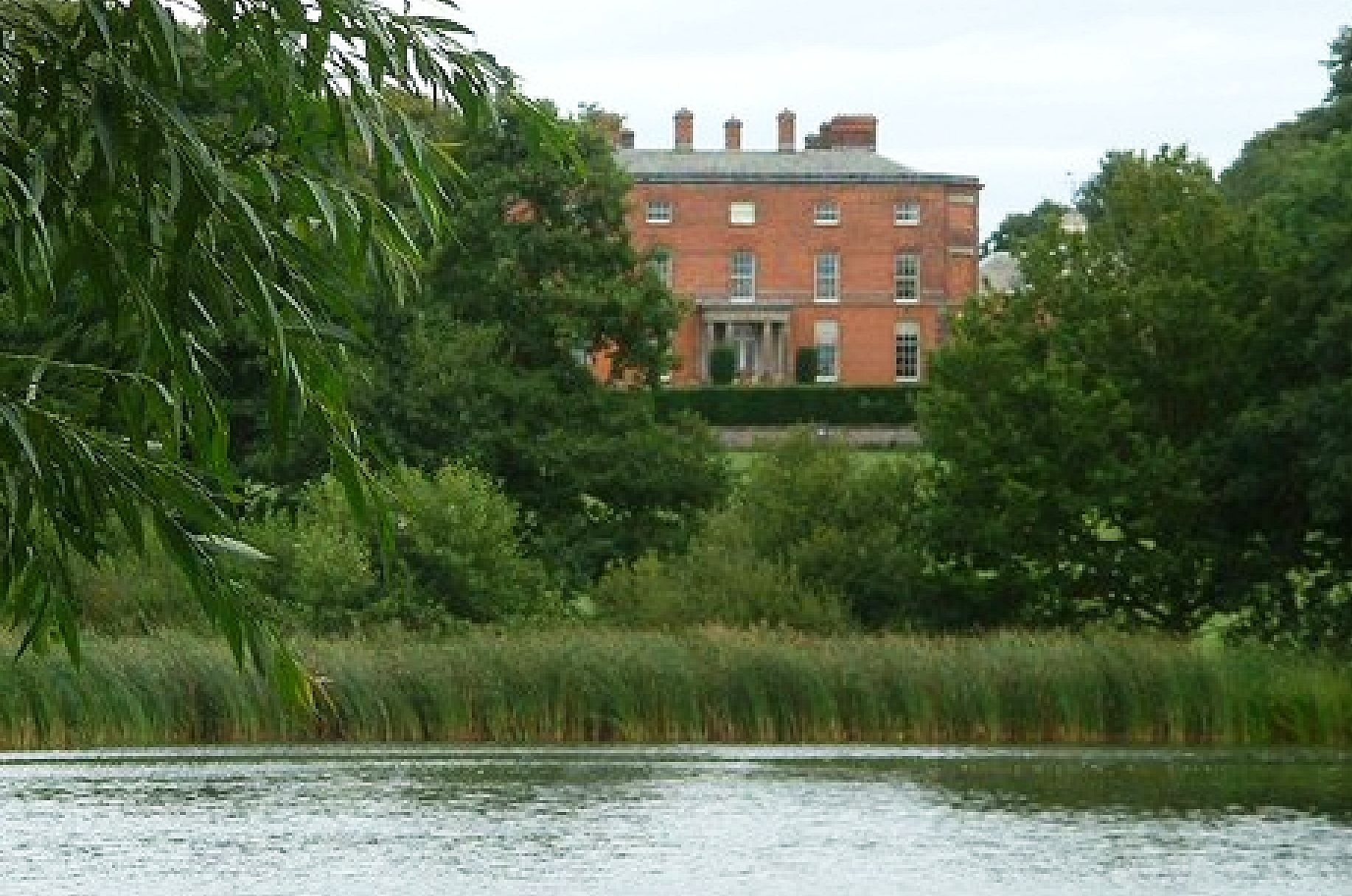 Rode Hall Rode Hall and lake